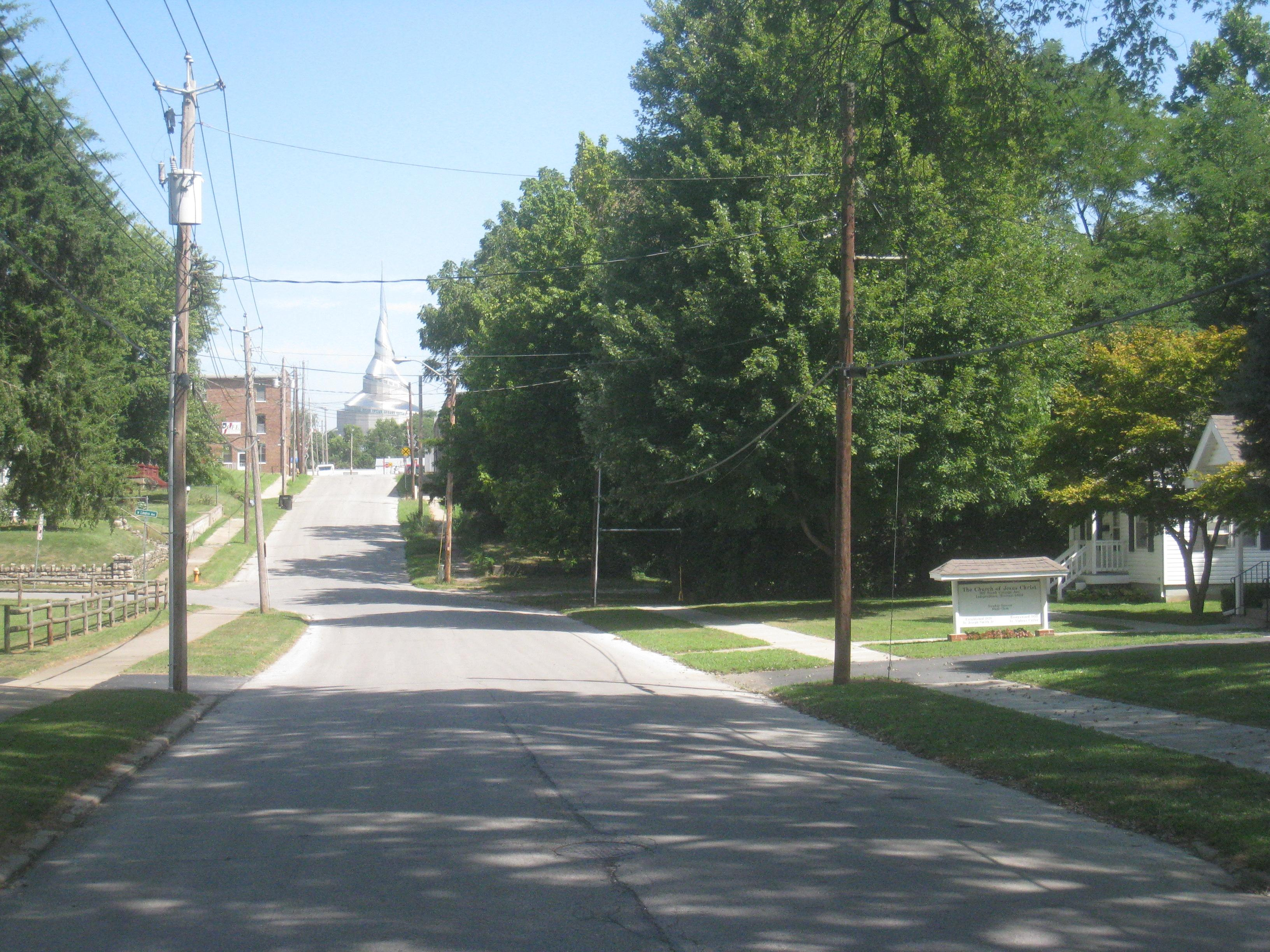 Wider-view photograph showing the Church of Jesus Christ (Cutlerite)'s relative proximity to the Community of Christ Temple, and therefore to the historic "Temple Lot" dedicated and purchased by Mormon leaders in 1831. I believe this is helpful to illustrate due to Alpheus Cutler's close ties to early "Mormon Temple" history.